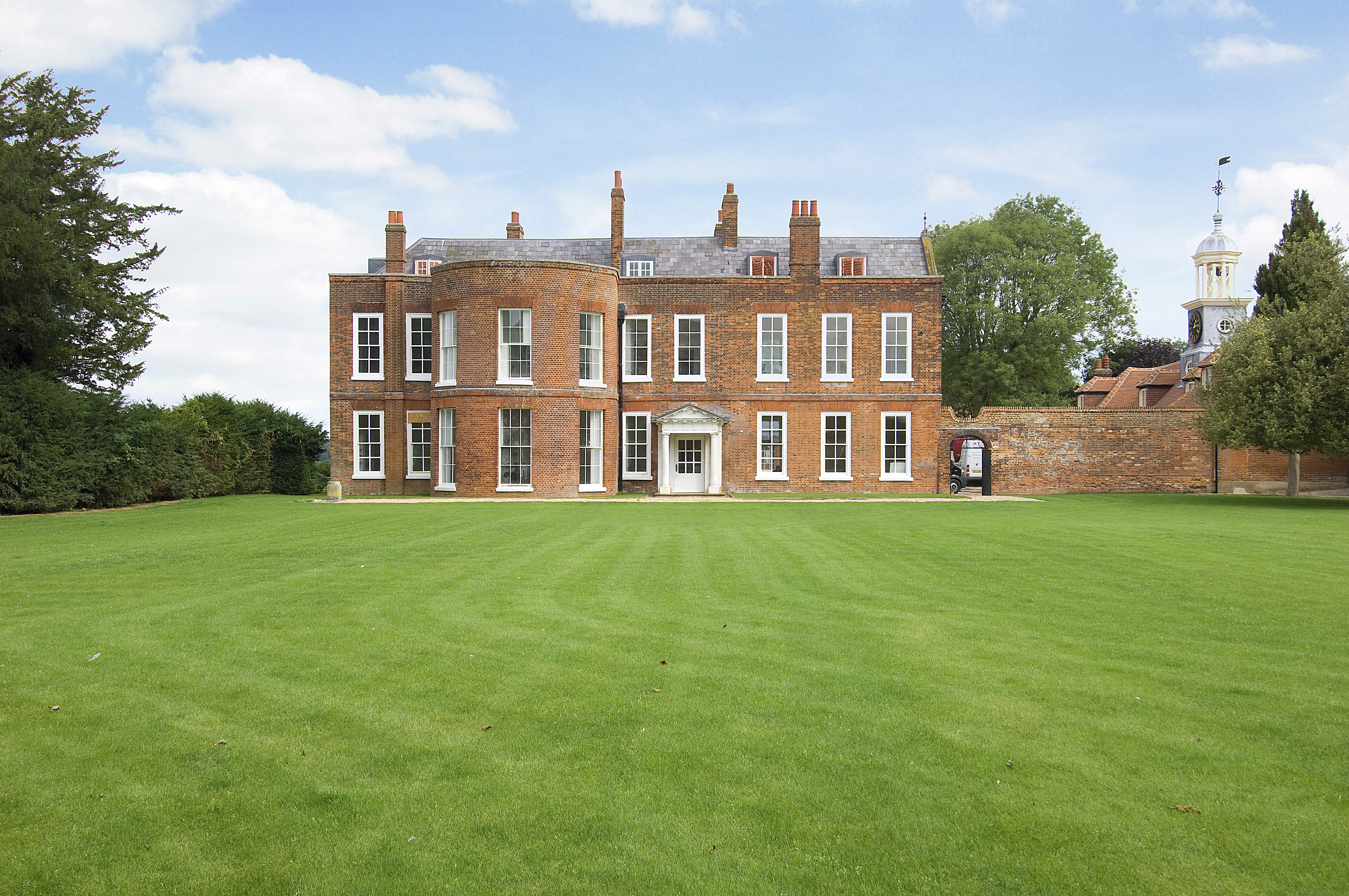 View of Orford Hall from the rear lawn.